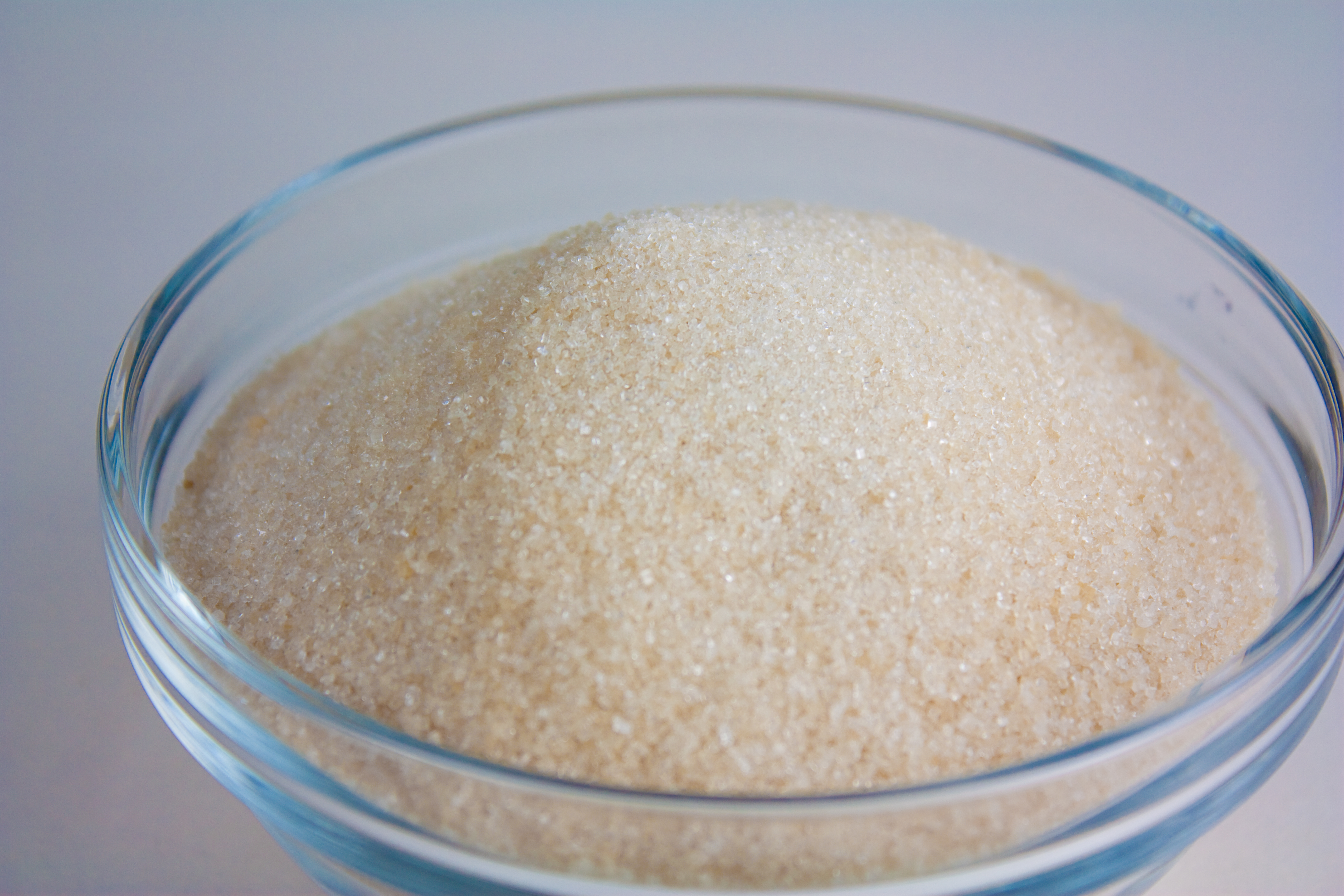 Turbinado Sugar